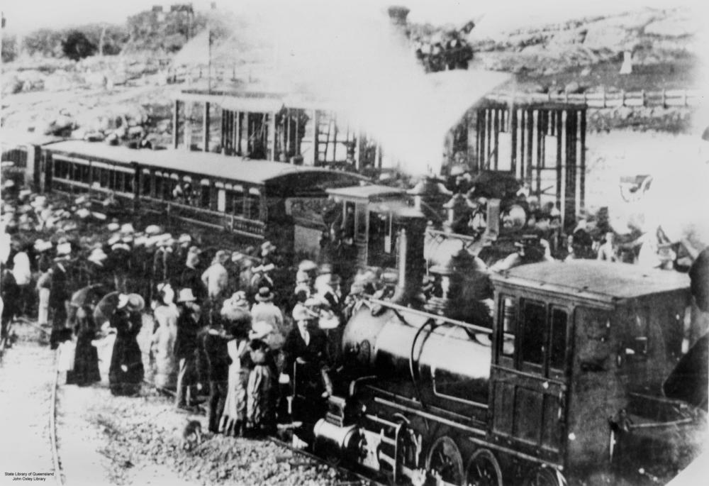 Opening of extensions to the Southern Railway Line at Stanthorpe, Queensland, 3 May 1881 A crowd of people watch the opening of the extension of the Southern Railway Line at Stanthorpe, 3 May 1881.Two locomotives and carriages are illustrated. The station buildings are still under construction.